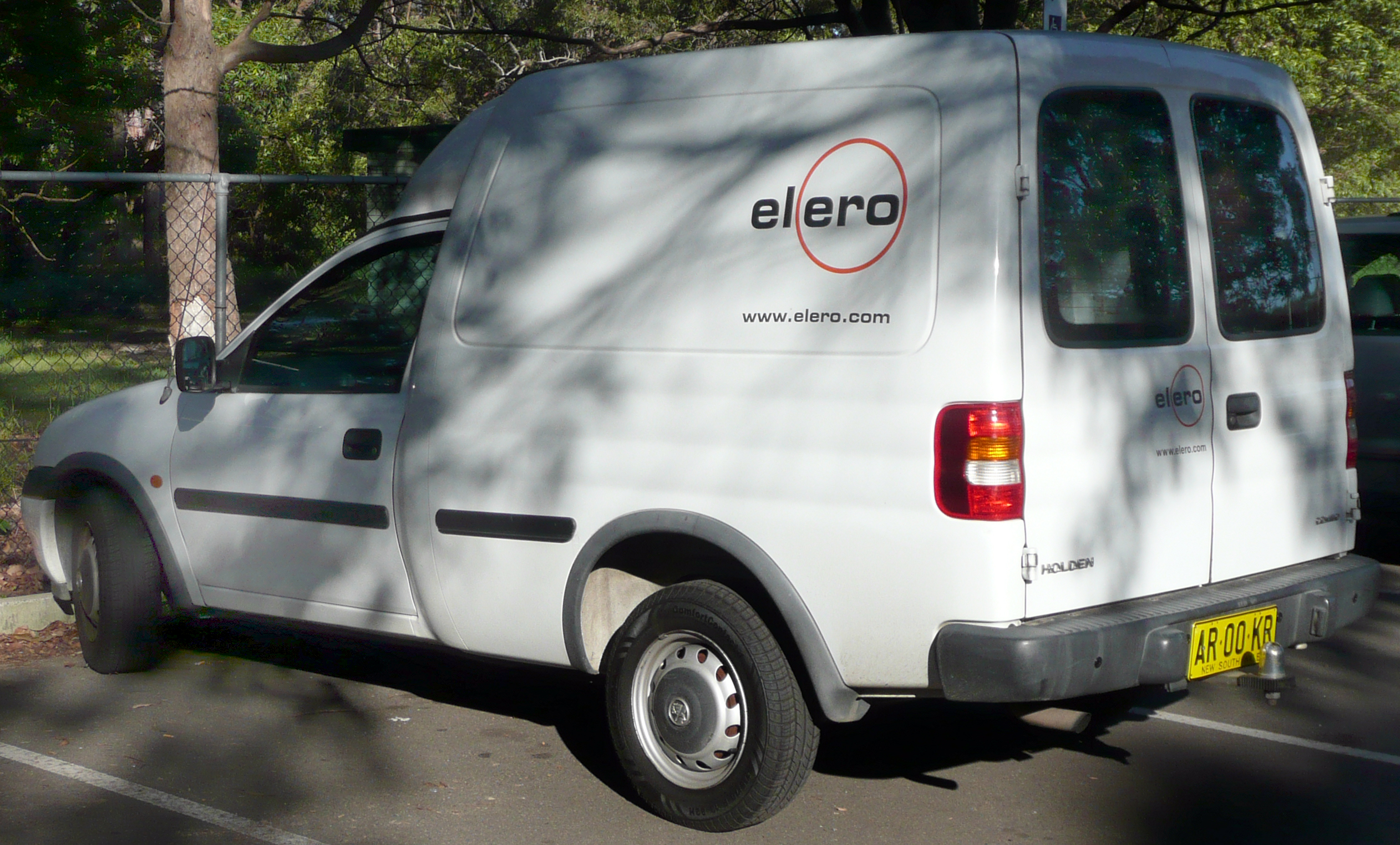 2001 Holden Combo (SB) van. Photographed in Loftus, New South Wales, Australia.